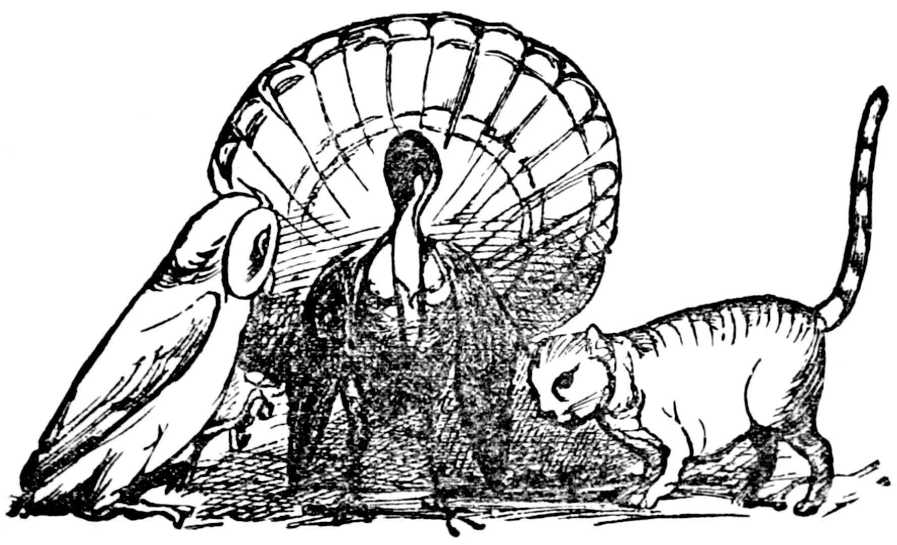 Edward_Lear_The_Owl_and_the_Pussy_Cat_3.jpg